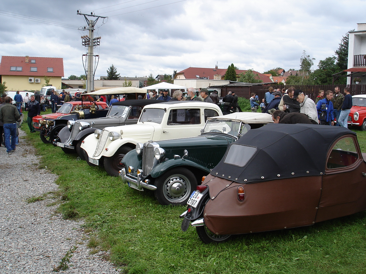 Tachlovice Triangle.